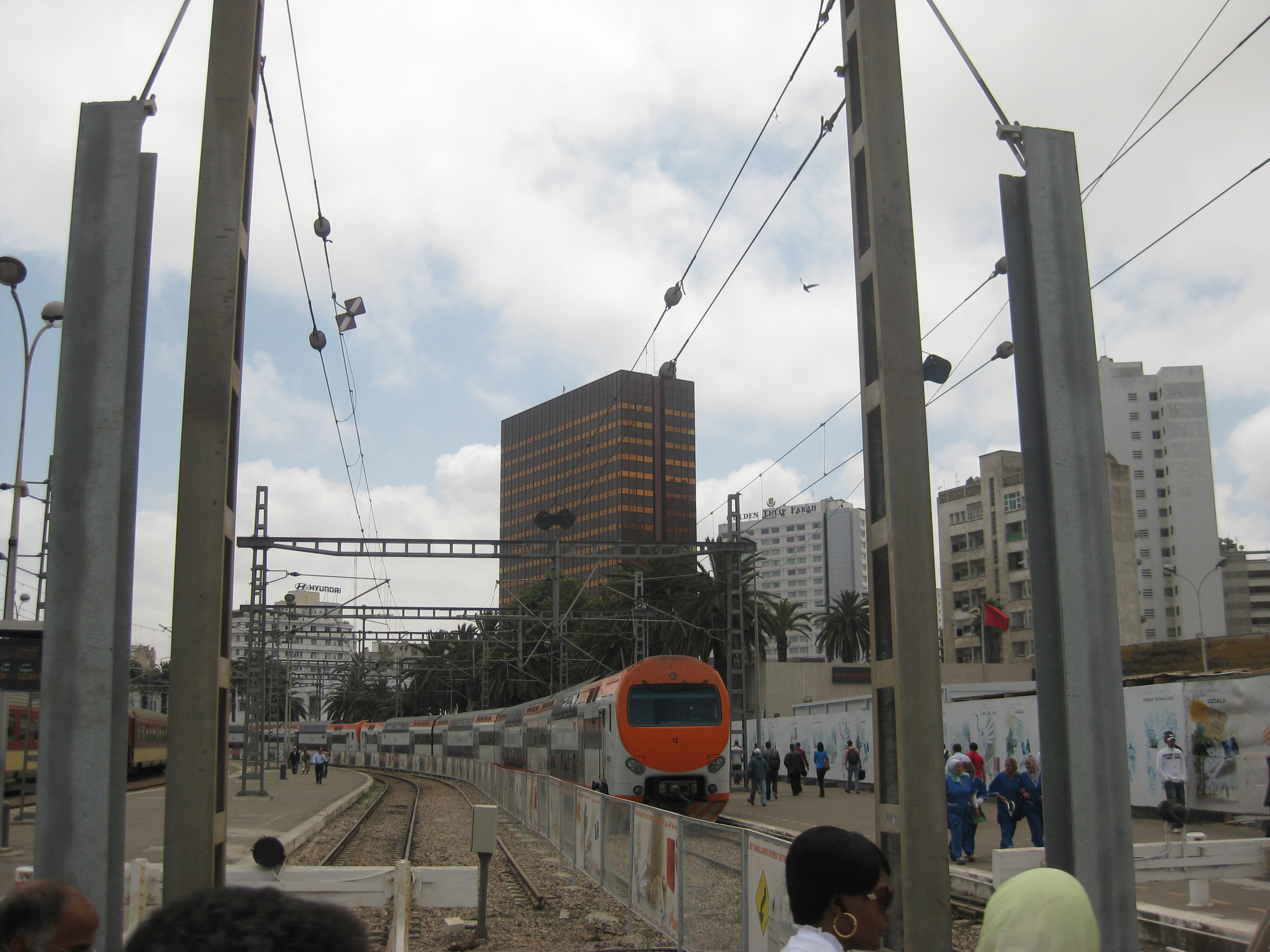 Casaport train station., Casablanca, Morroco